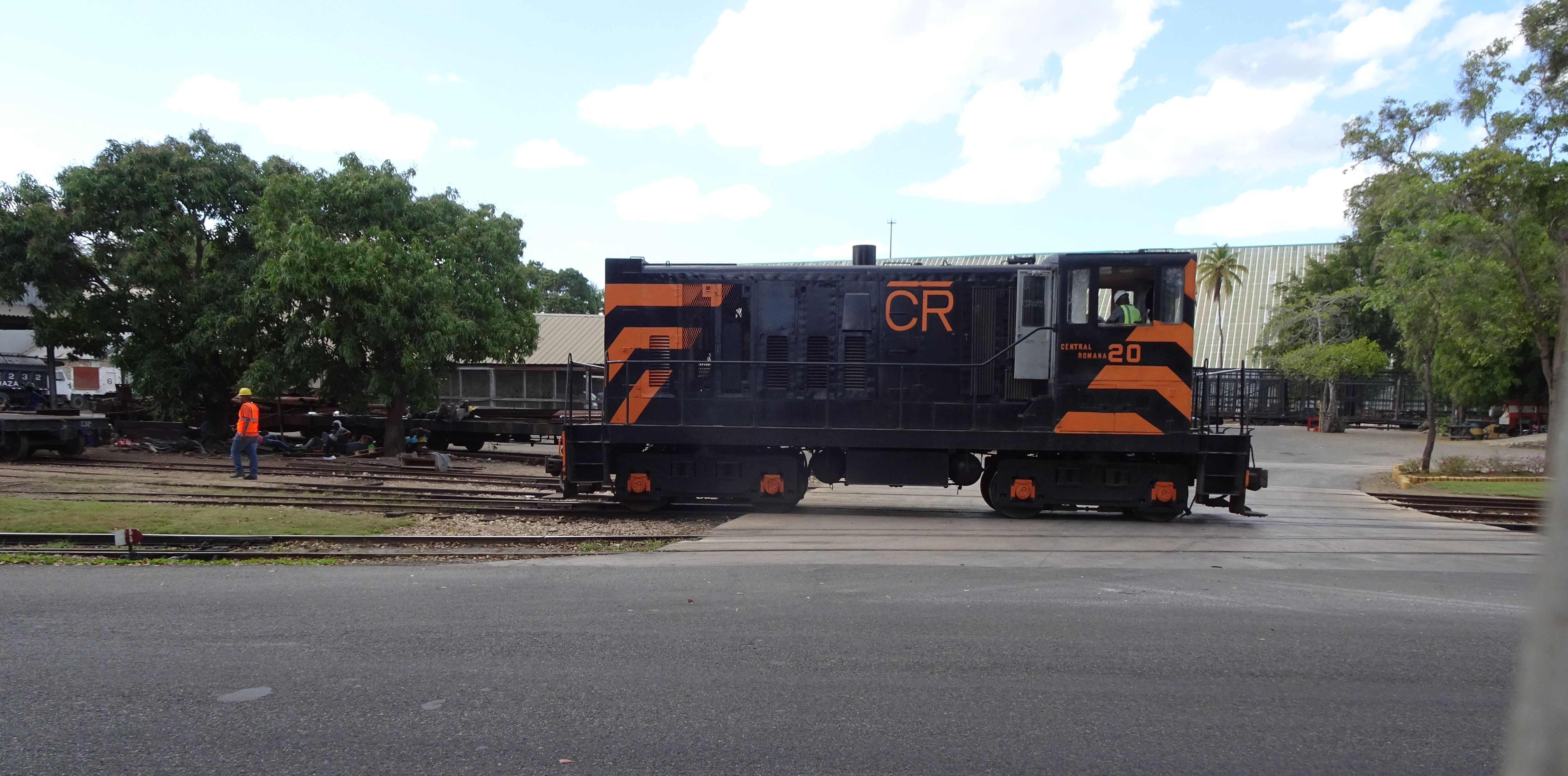 Railway in La Romana